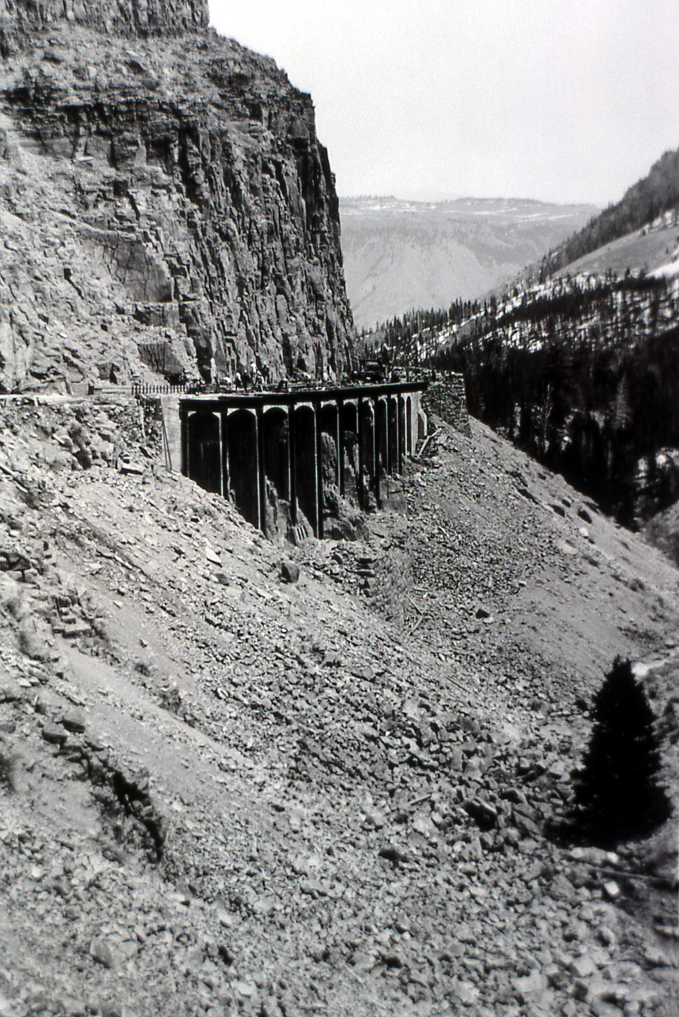 Widening of the Golden Gate viaduct, Yellowstone National Park, Wyoming, USA